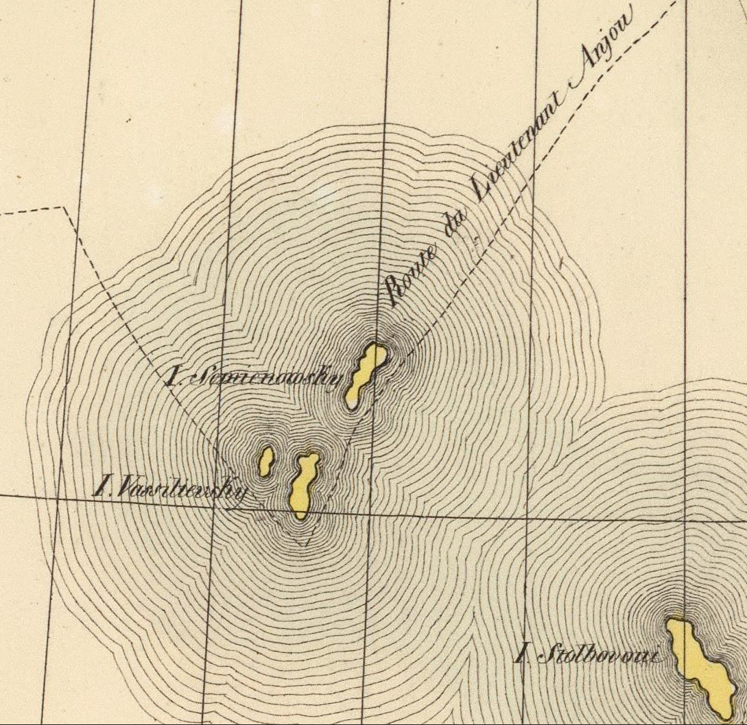 Former Semyonovsky and Vasilyevsky islands in New Siberian archipelago, in SE corner is Stolbovoi island, dashed line describes lieutenant Anjou expedition route in 1823